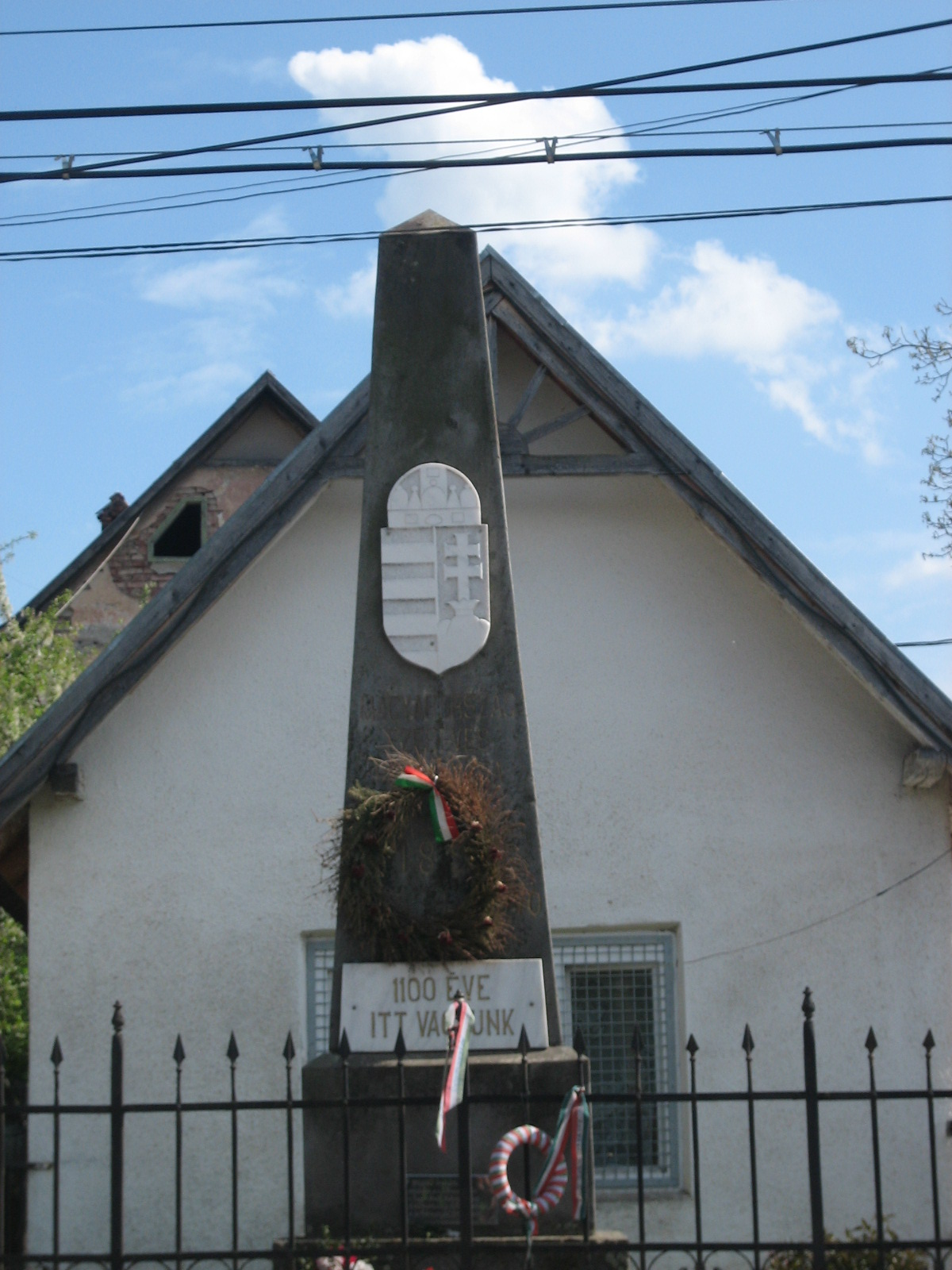 The Hungarian coat of arm monument in Eremitu